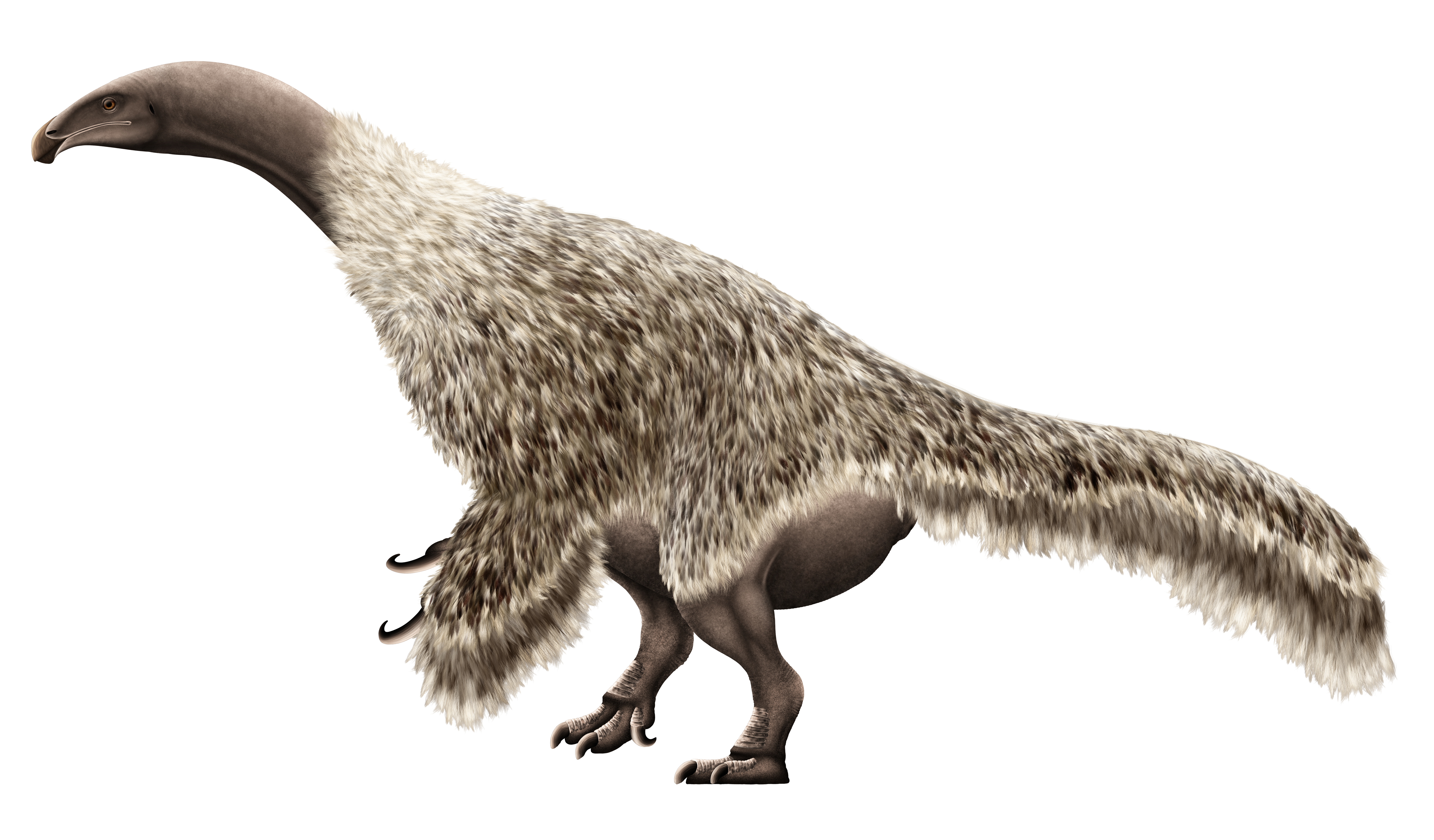 Life restoration of an individual of the therizinosaurids Nanshiungosaurus brevispinus.